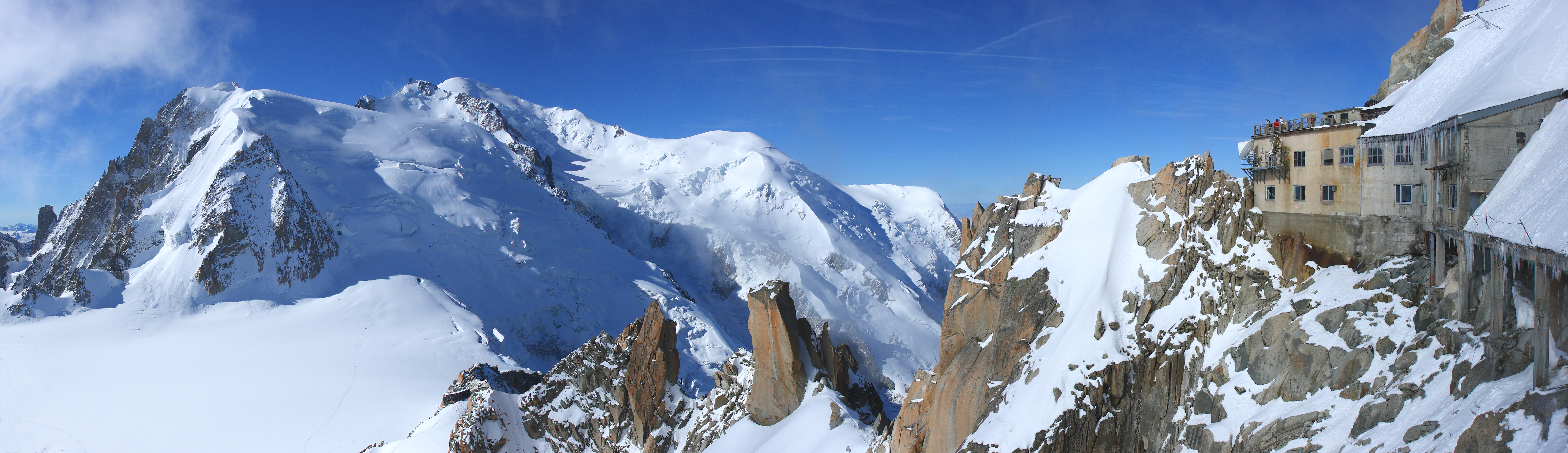 The Mont Blanc seen in the afternoon taken from the Rébuffat platform. HDR panorama created from stitching 3 pictures taken with 3 different exposures.